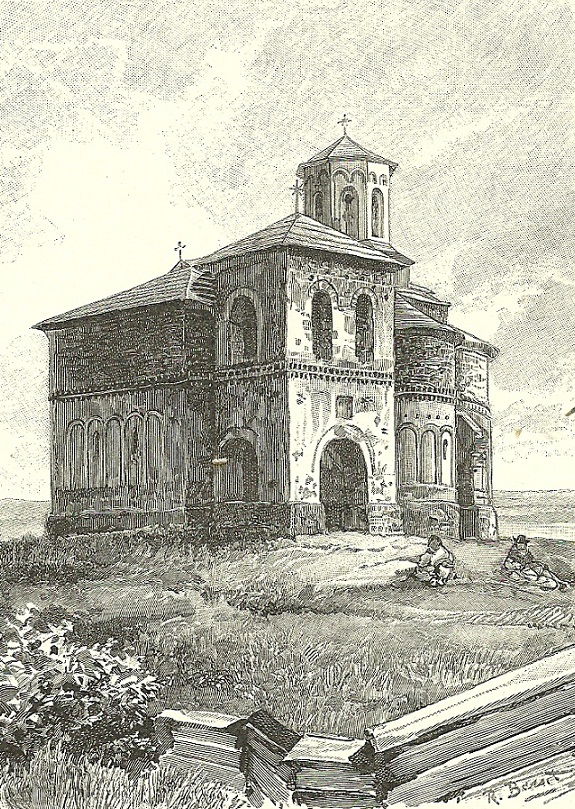 Mirăuţi Church in Suceava - xylography by Rudolf Ruß (1899).